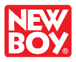 NewBoy Logo